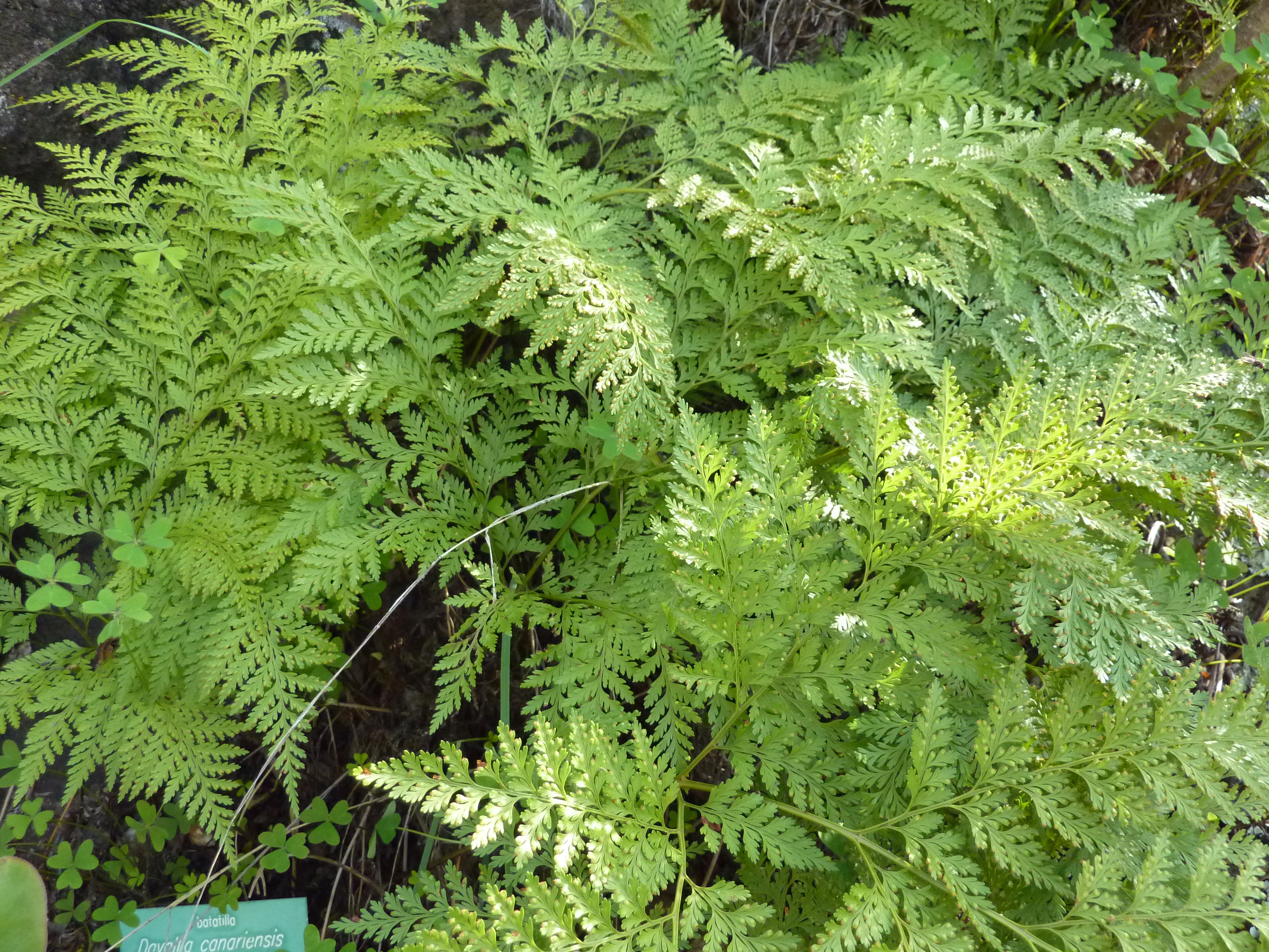 Davallia canariensis growing in the Jardín Botánico Canario Viera y Clavijo.